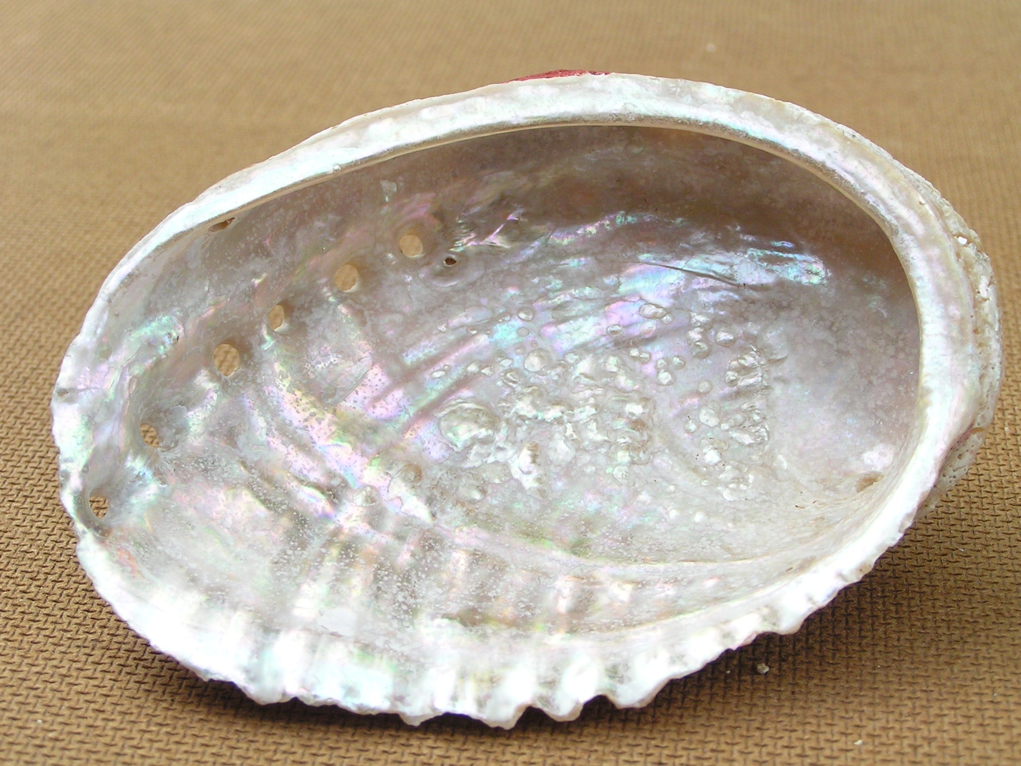 Haliotis mariae W. Wood, 1828; family Haliotidae; Muscat Oman